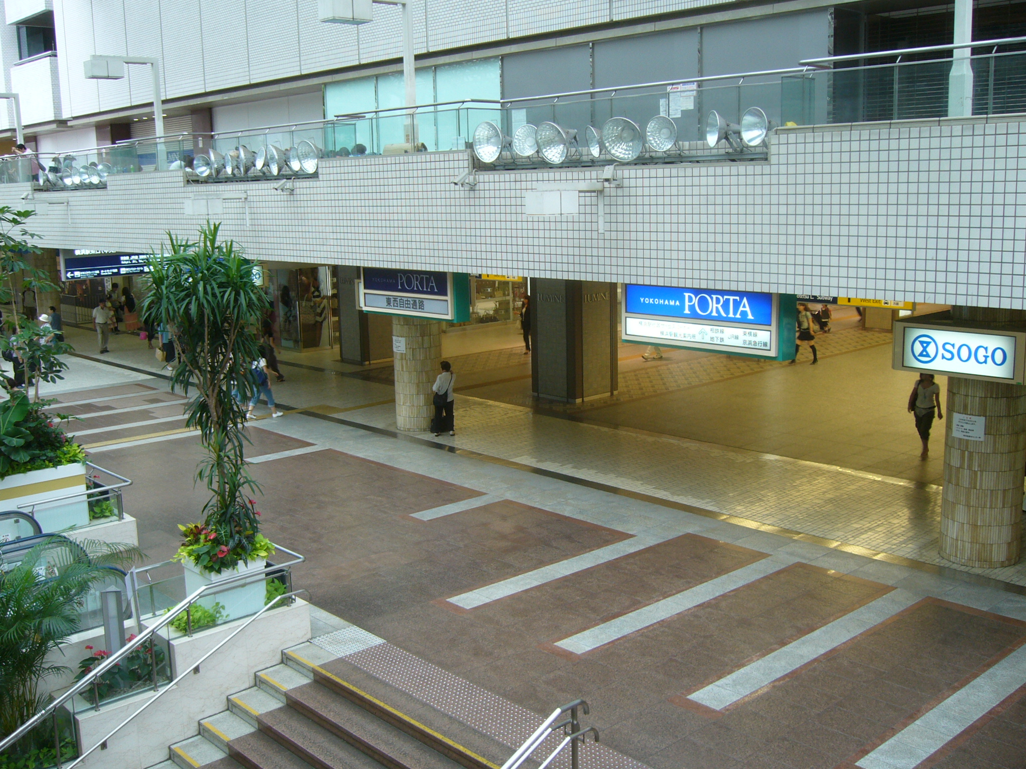 East exit of Yokohama station(East-West passage).